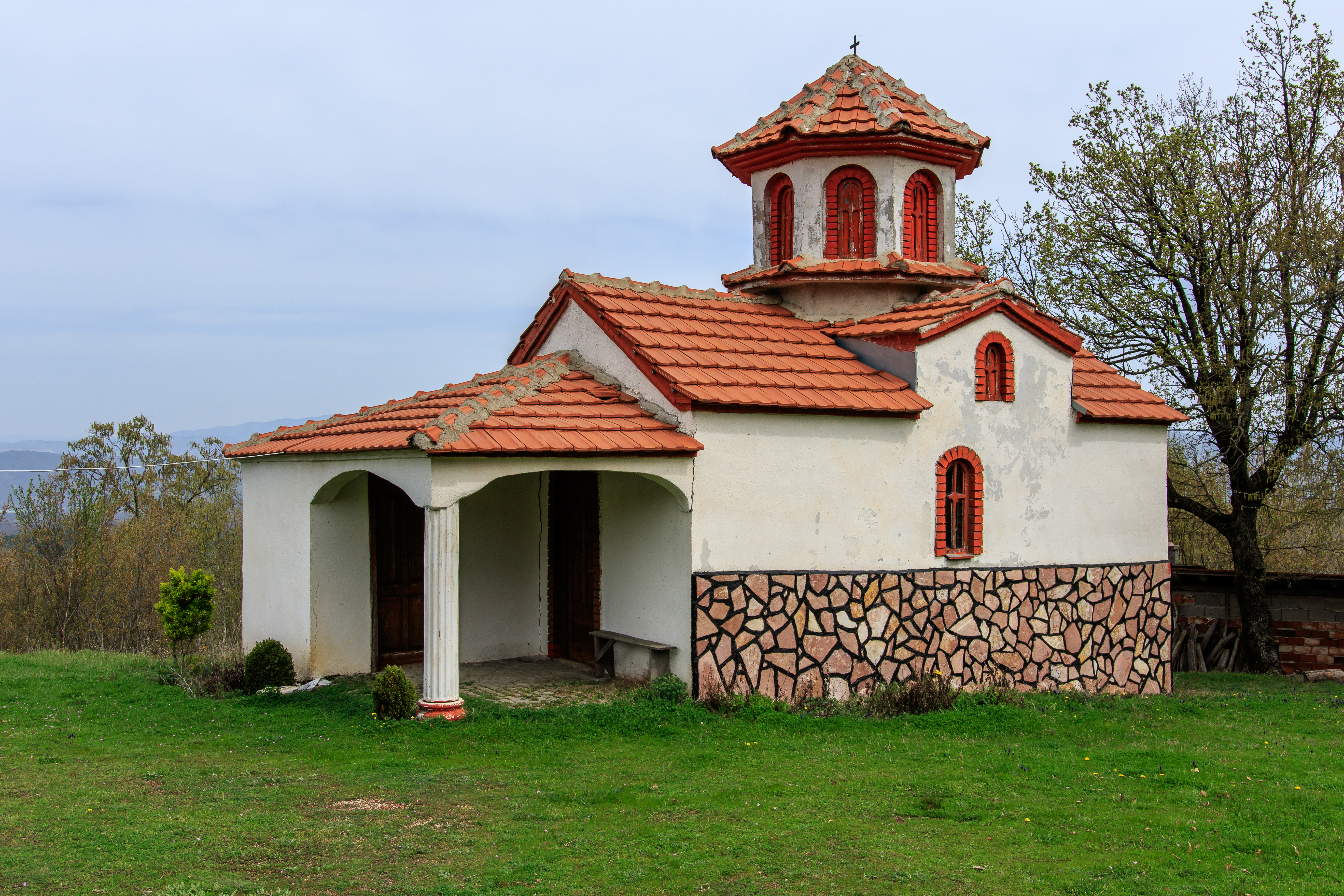 View of the St. Elijah Church in the village Lubnica